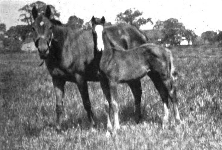 Oaks winner Jest with her 1918 colt foal sired by Polymeus (the 1921 Derby winner Humorist).